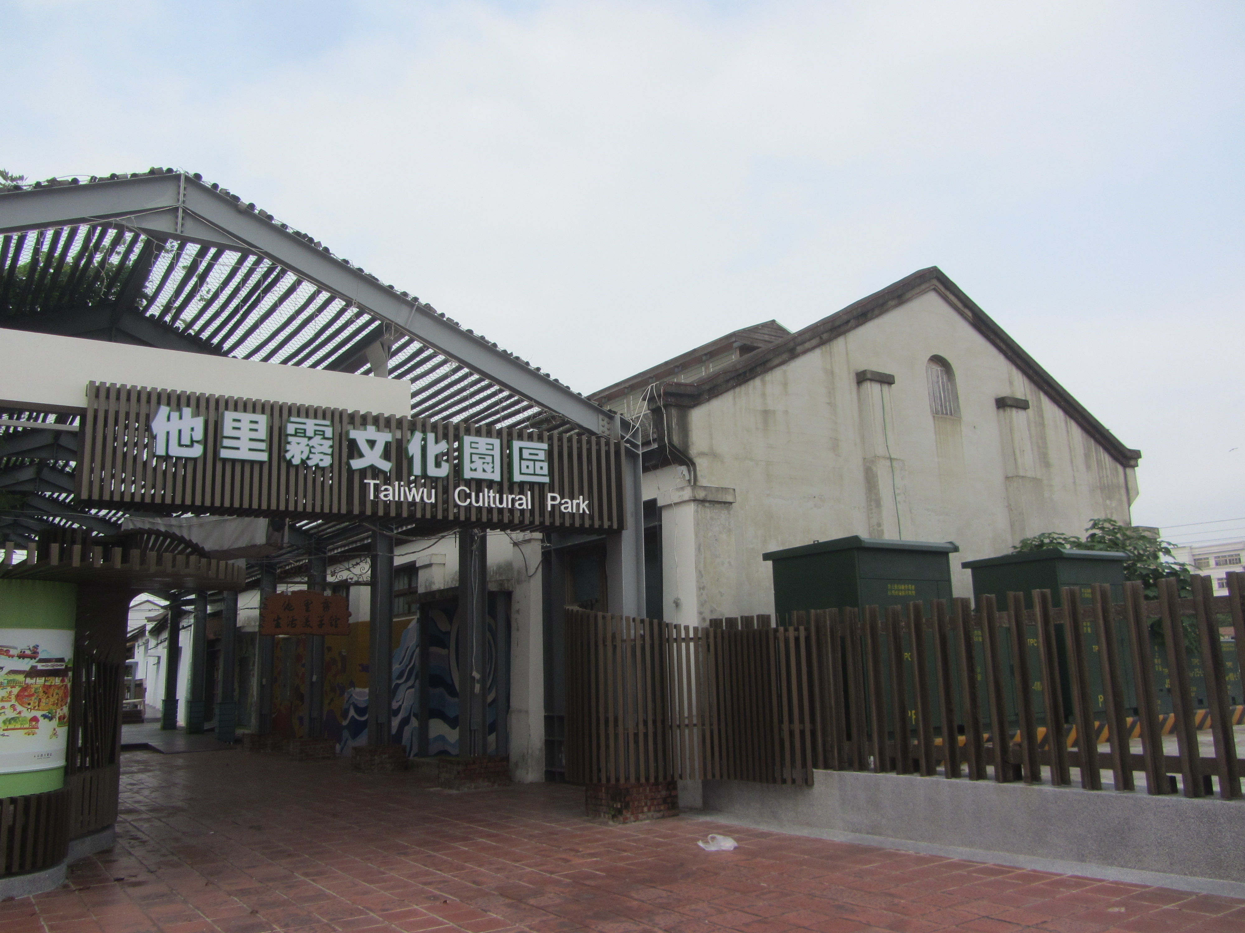 Taliwu Cultural Park